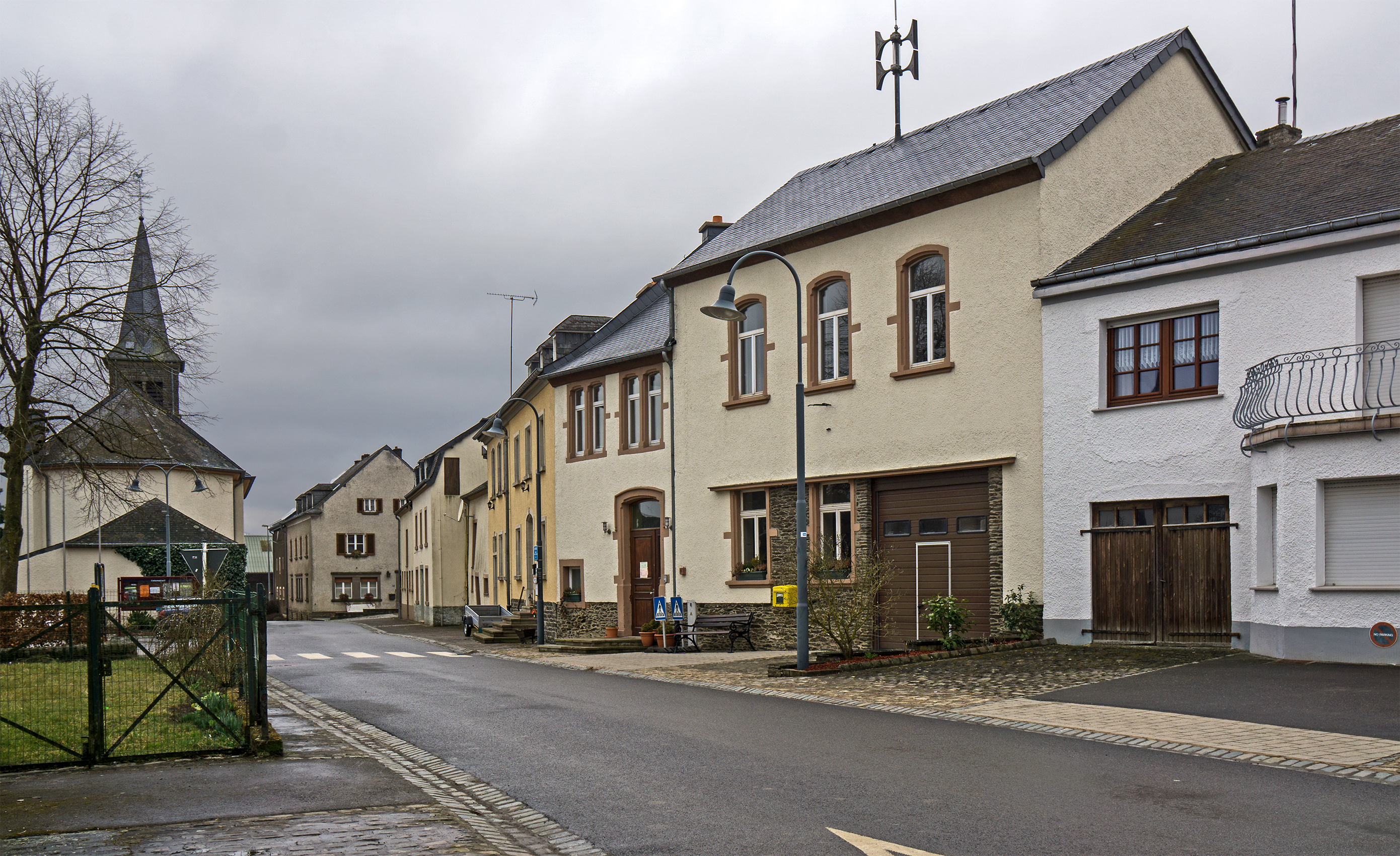 Lisseneck in Hoscheid